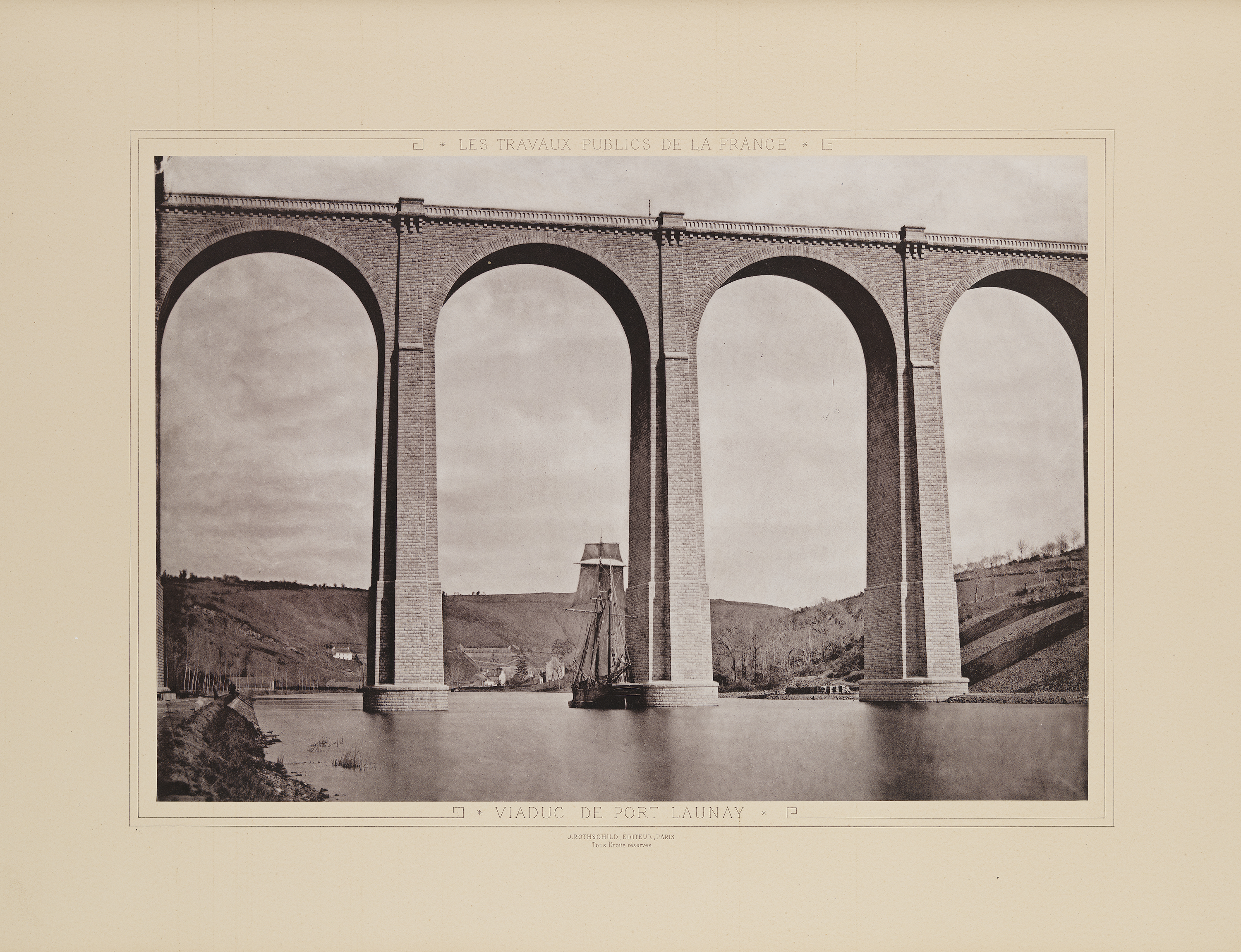 Title: Viaduc de Port Launay Alternative Title: Port Launay Viaduct Creator: Duclos, Jules Date: 1883 Part Of: Les Travaux Publics de la France, Tome Deuxieme: Chemins de Fer Place: Port-Launay, Finistere, Brittany, France Physical Description: 1 photographic print: collotype; 26 x 35 cm on 40 x 56 cm mount File: vault_folio_2_ta71_a4_1883_2_08_opt.jpg Rights: Please cite Southern Methodist University, Central University Libraries, DeGolyer Library when using this image file. A high-quality version of this file may be obtained for a fee by contacting . For more information, see